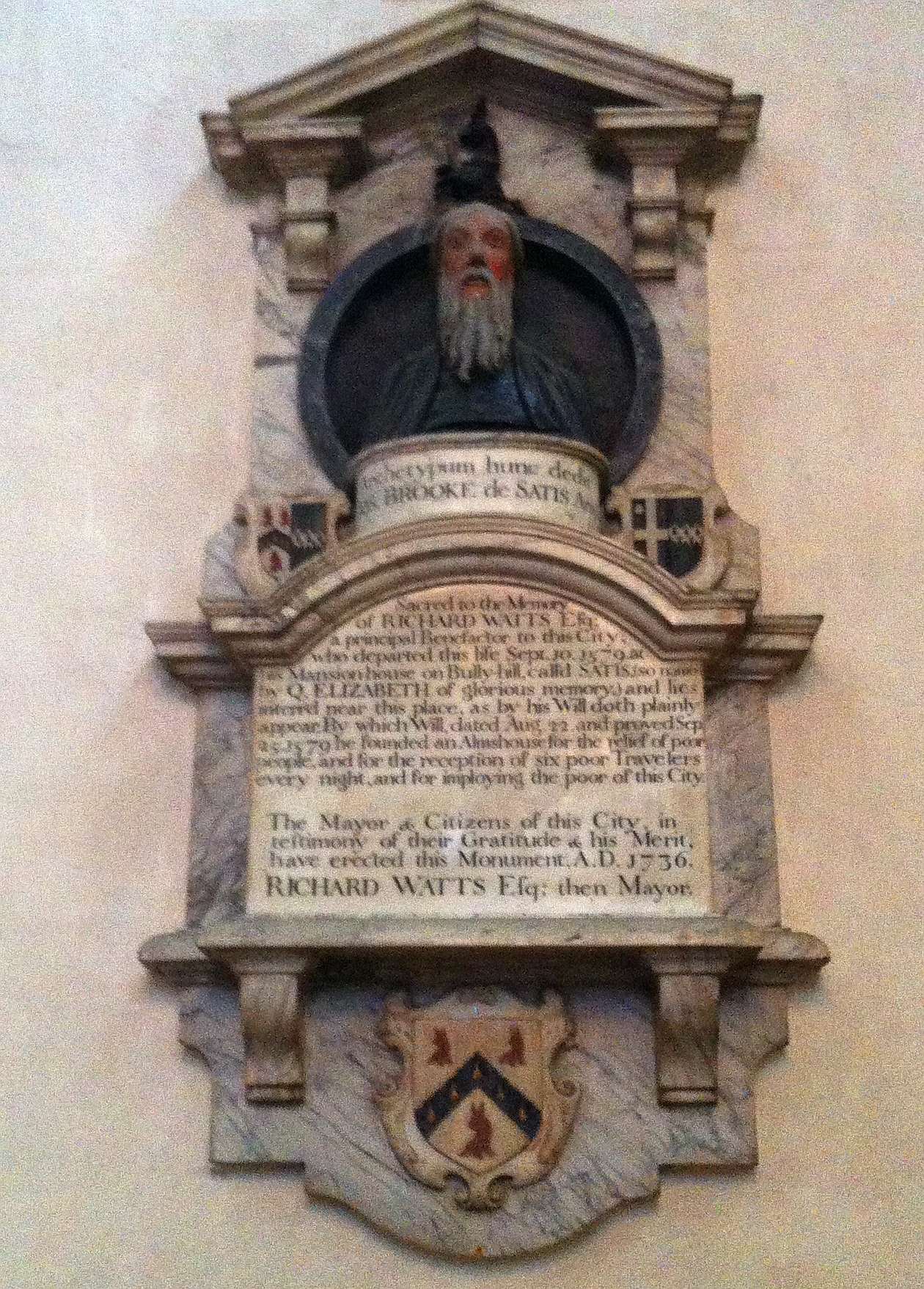 Rochester Cathedral: Memorial to Richard Watts (1529–1579) including probably contemporary bust of Richard.